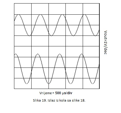 I'll draw him